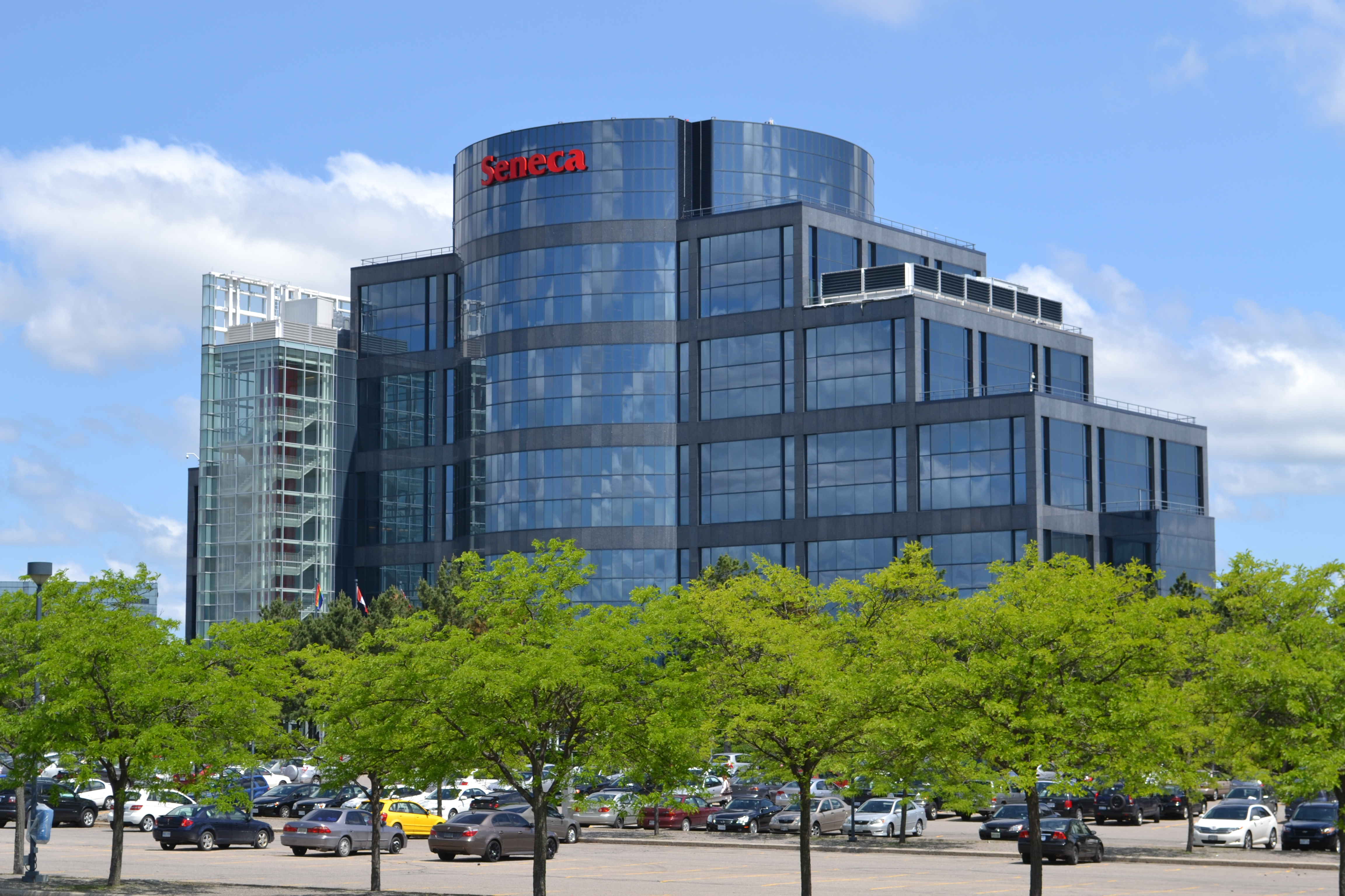 Seneca College, Markham Campus